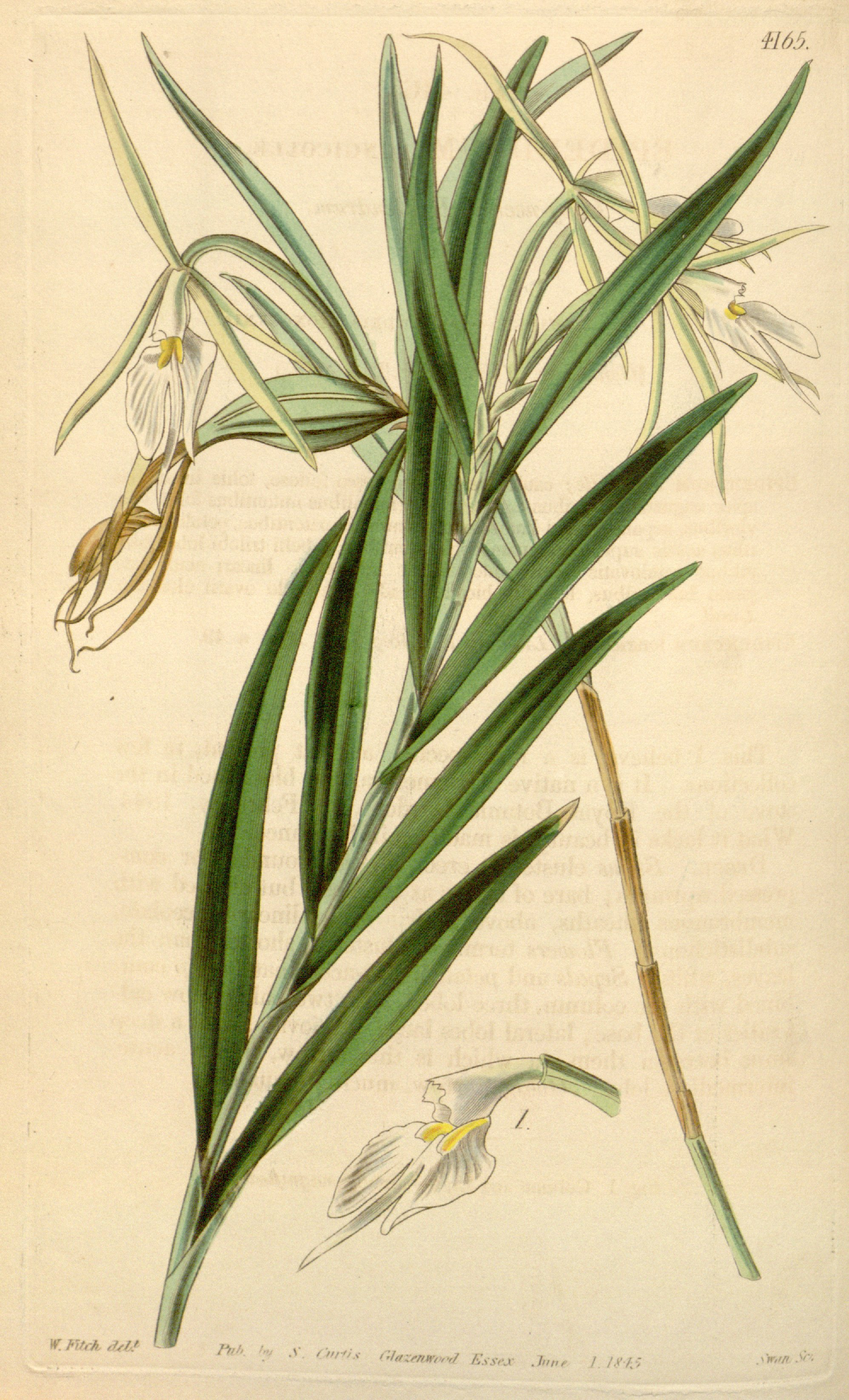 Illustration of Epidendrum longicolle